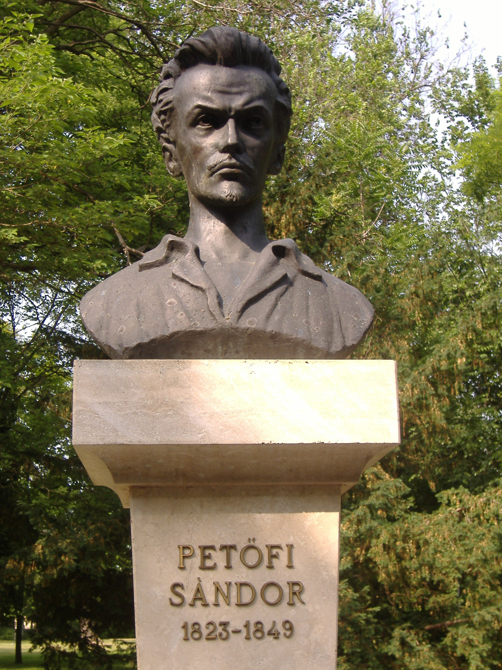 Statue of Sándor Petőfi, Hungarian poet and freedom warrior in Makó, Hungary.